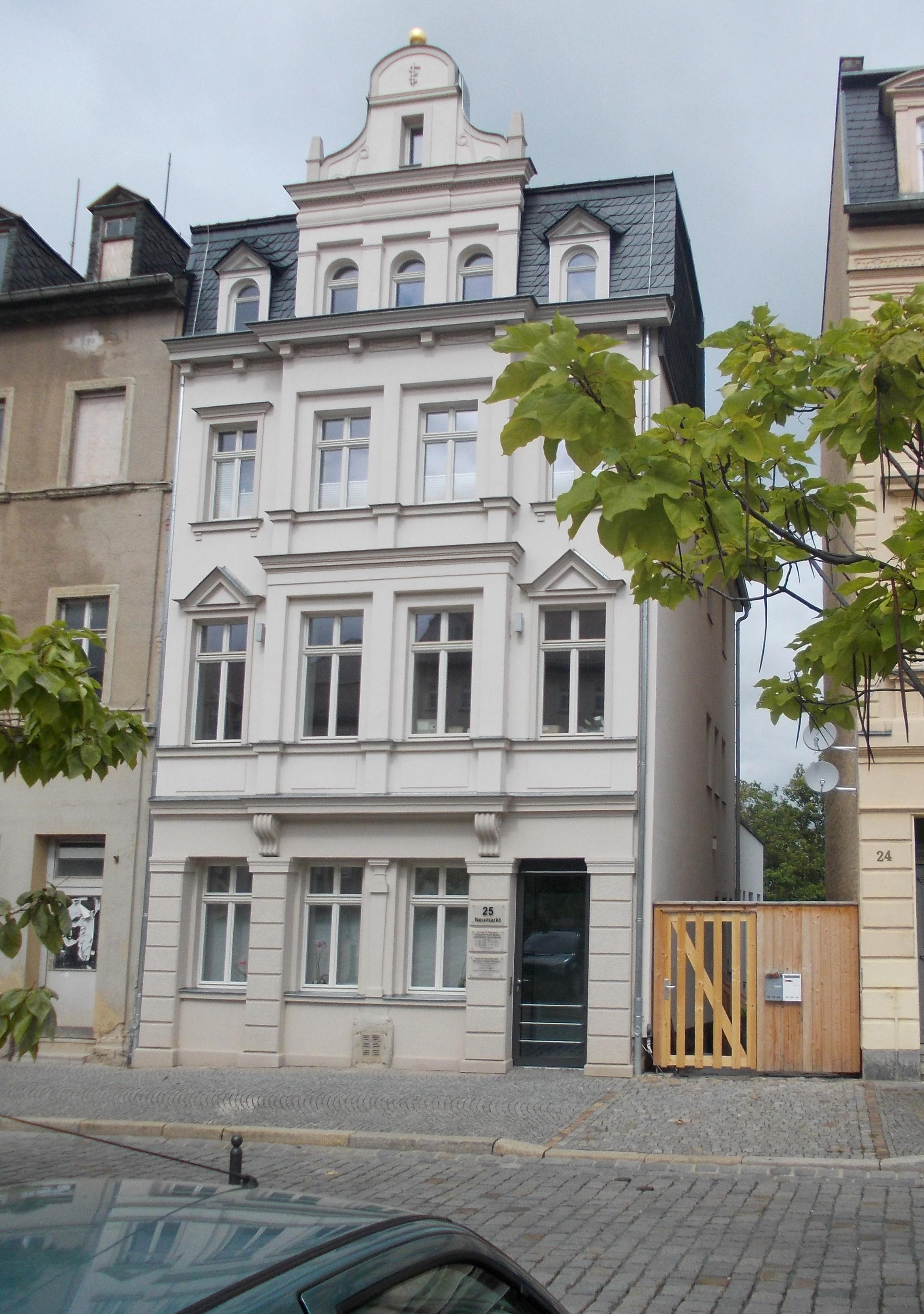 No. 25, Neumarkt in Zeitz (district: Burgenlandkreis, Saxony-Anhalt)